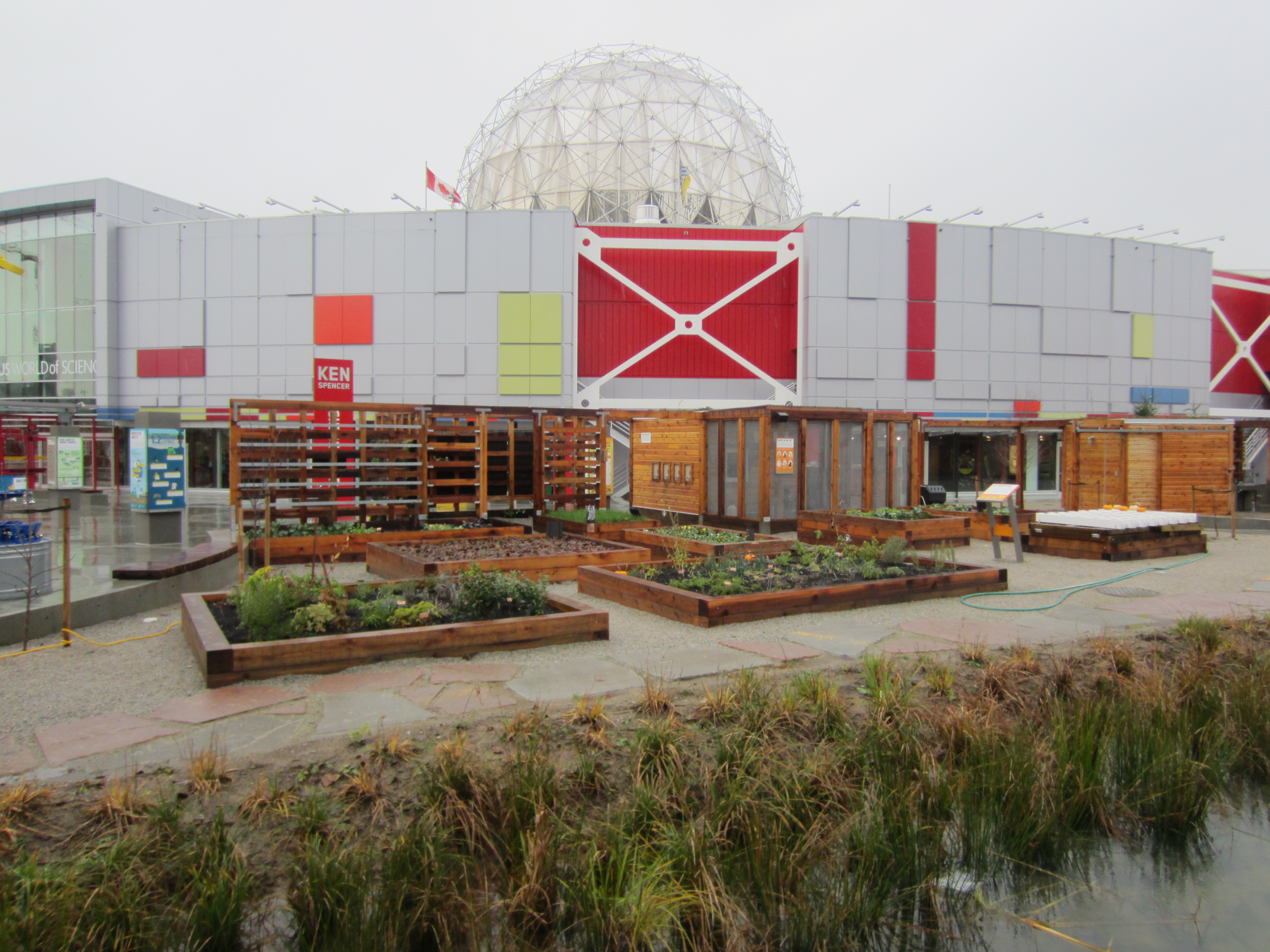 Science World, Vancouver, British Columbia (2012)